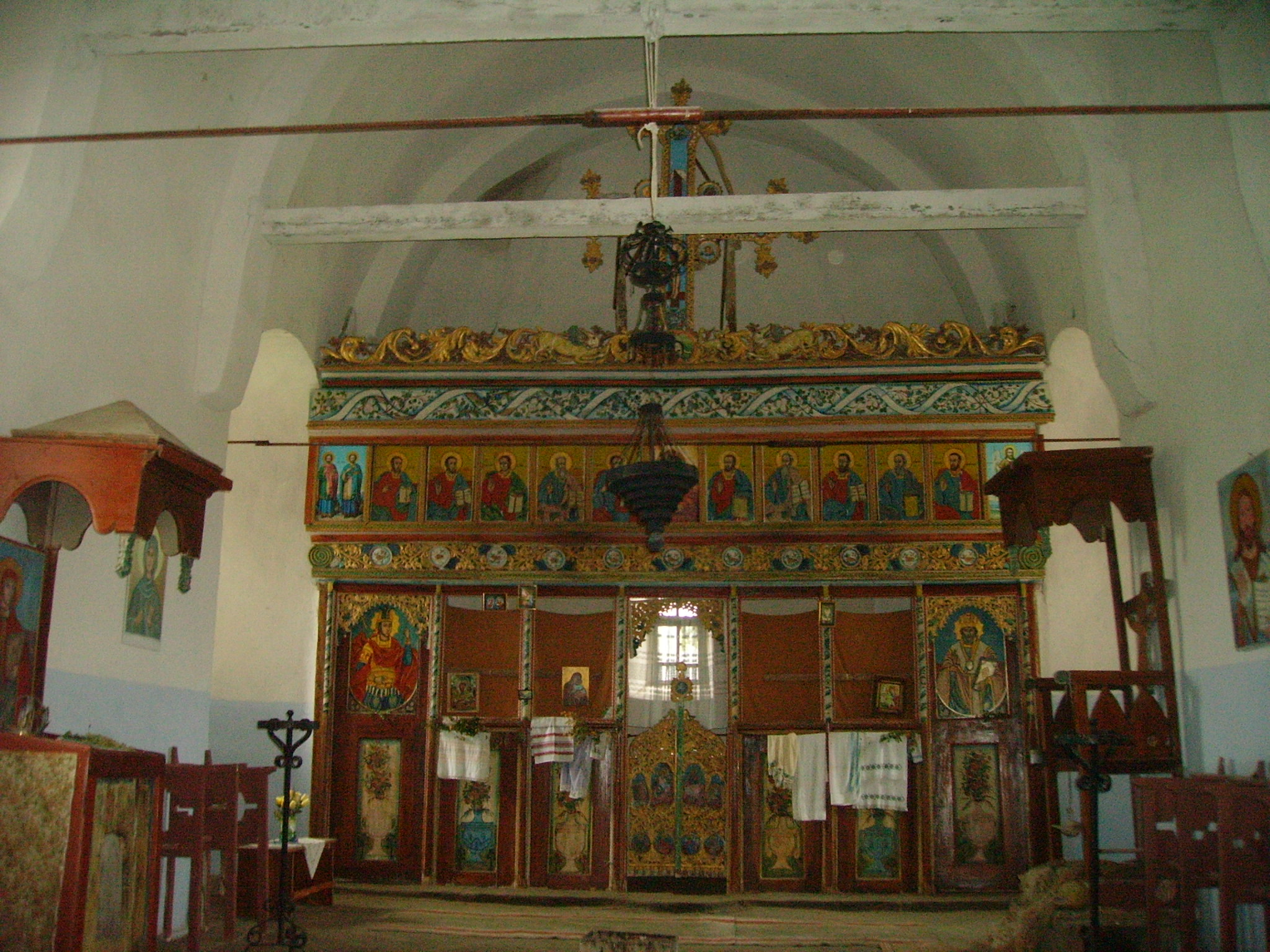 Church "Saint Iliya", village Gorochevtsi, Bulgaria